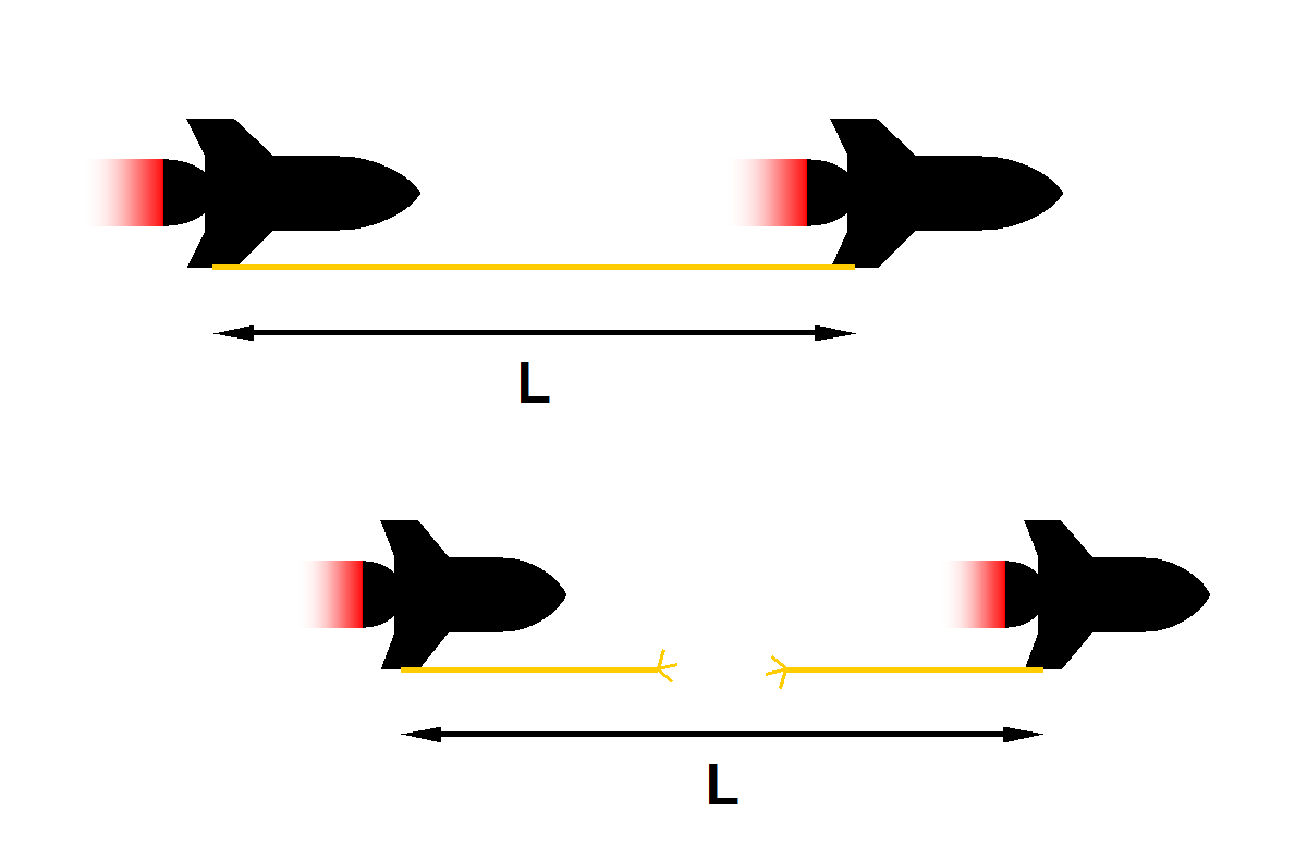 Bell's spaceship paradox is a thought experiment in special relativity. Two spaceships, which are initially at rest in some common inertial reference frame are connected by a taut string. At time zero in the common inertial frame, both spaceships start to accelerate, with a constant proper acceleration g as measured by an on-board accelerometer. Question: does the string break - i.e. does the distance between the two spaceships increase? [1]